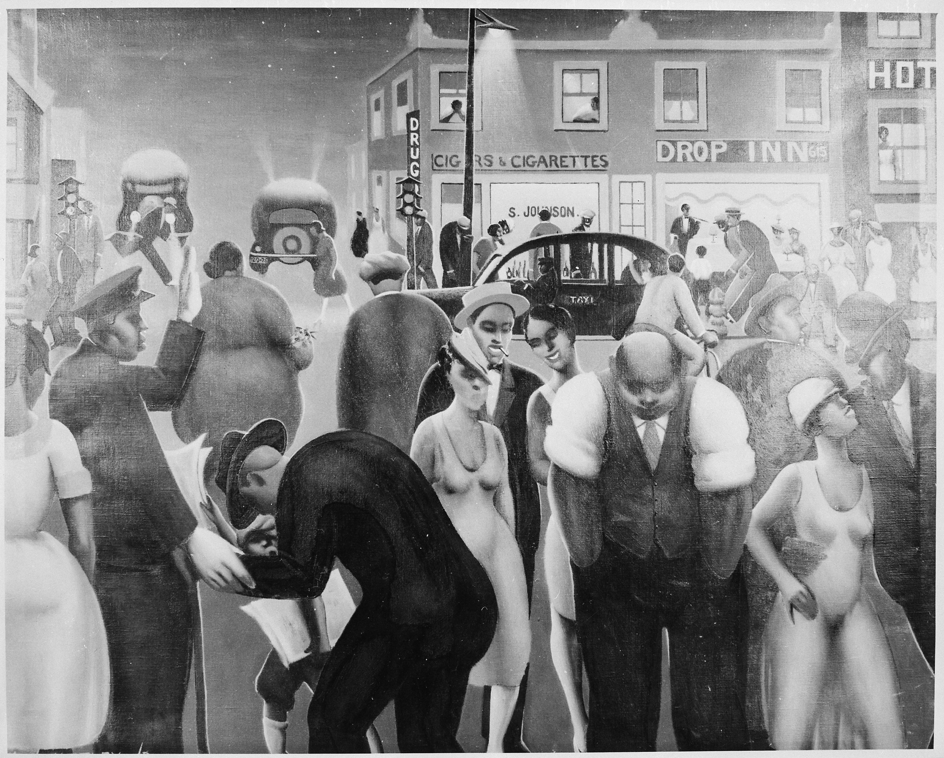 General notes: Painting.This image is also available in color. Please ask Contact below to obtain a copy.